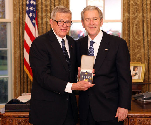 President George W. Bush stands with Chuck Colson after presenting him with the 2008 Presidential Citizens Medal Wednesday, Dec. 10, 2008, in the Oval Office of the White House. White House photo by Chris Greenberg